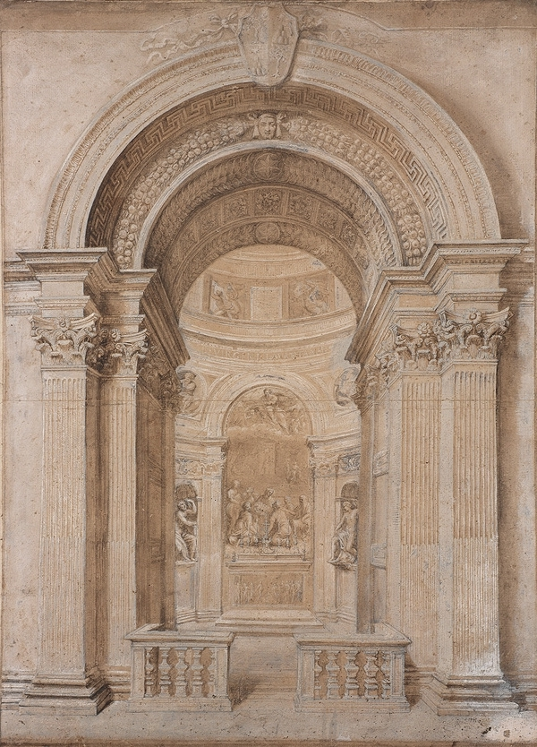 Chigi Chapel, Santa Maria del Popolo, Rome, drawing by unknown Italian artist from the workshop of Gian Lorenzo Bernini, c. 1655, in the collection of the Smith College Museum of Art